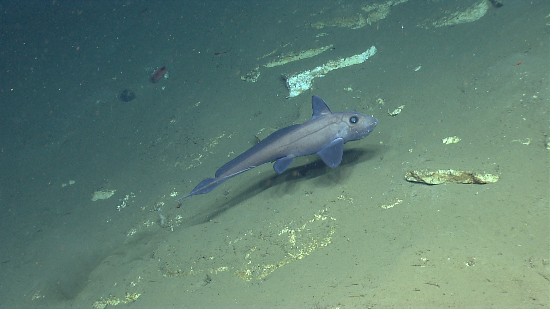 Deep sea fish. A chimaera. Image ID: expl9795, Voyage To Inner Space - Exploring the Seas With NOAA Collect Location: Lydonia Canyon, southwestern wall, 1236-1136m Photo Date: 20130813T133912Z Credit: NOAA OKEANOS Explorer Program , 2013 Northeast U. S. Canyons Expedition